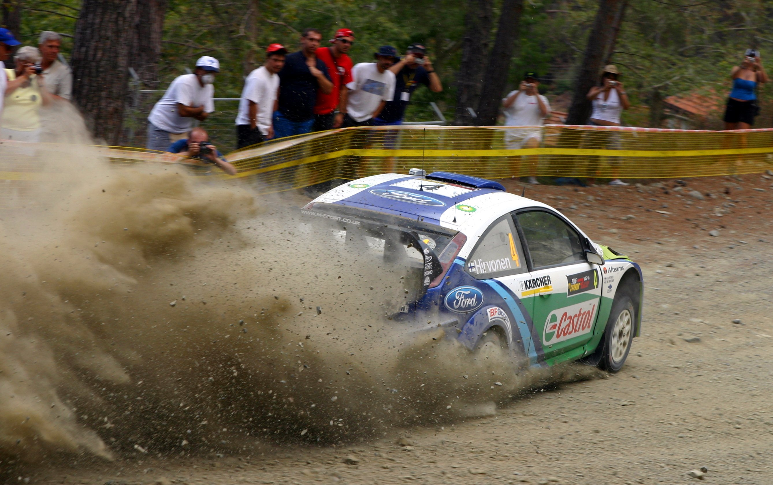 Mikko Hirvonen on SS4 of the 2006 Cyprus Rally.